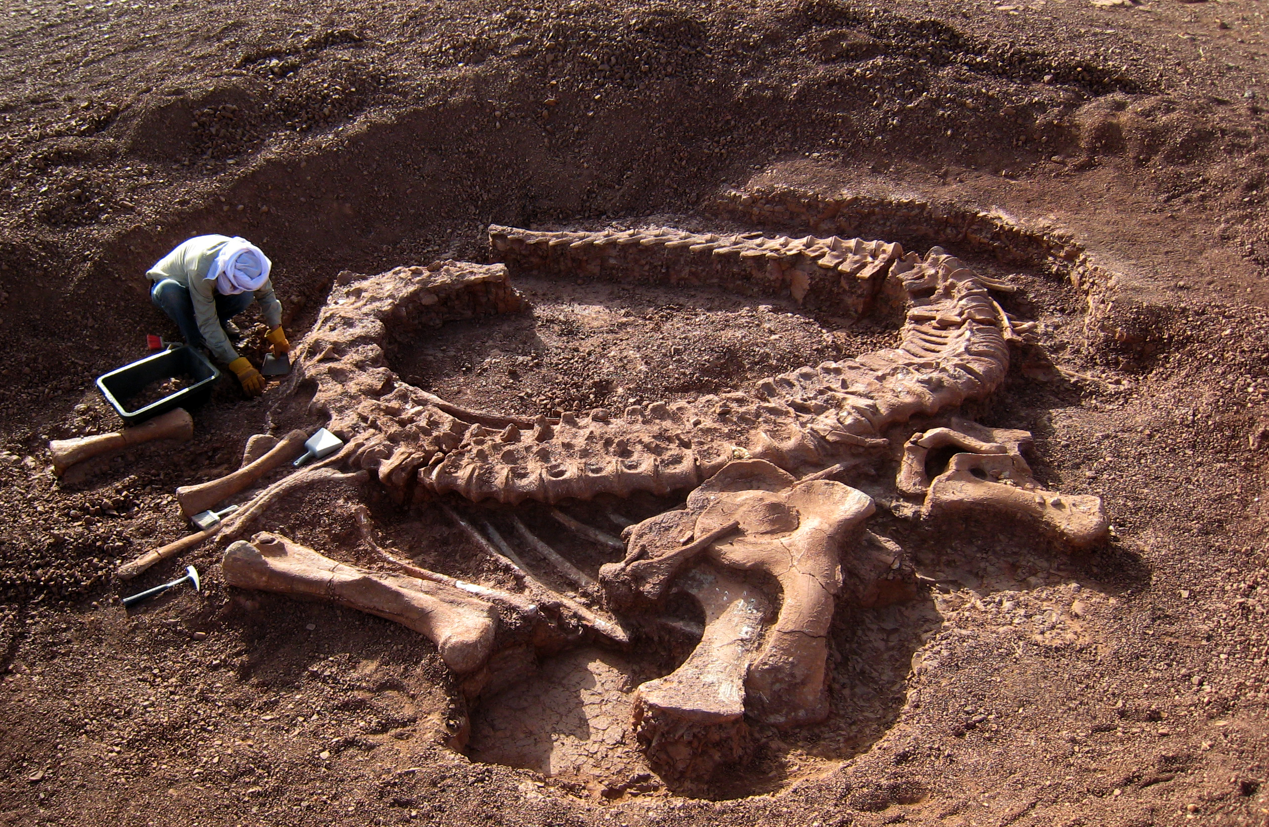 Spinophorosaurus sauropod dinosaur excavation in the Middle Jurassic (160 million years ago) of Agadez, Niger, in the context of a paleontology project development.